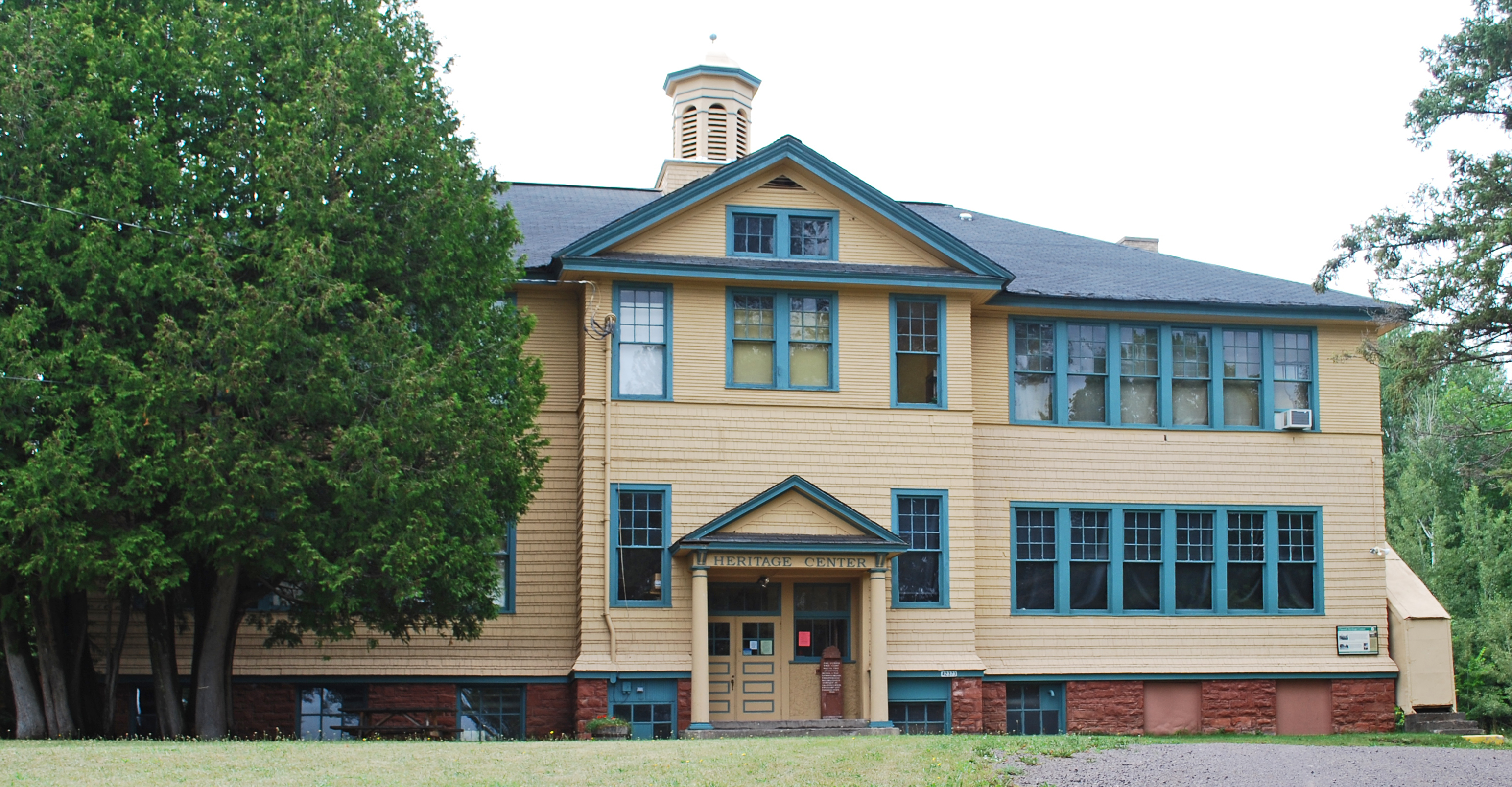 The Chassell School Complex — now the Chassell Heritage Center, in Chassell, upper Michigan. Located within the Keweenaw National Historical Park.